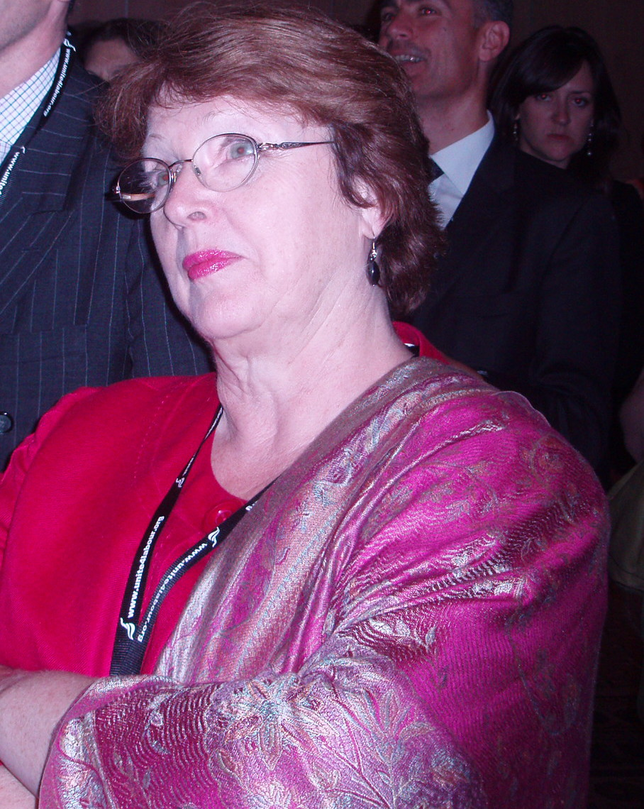 Glenys Thornton Labour Party Conference 2010